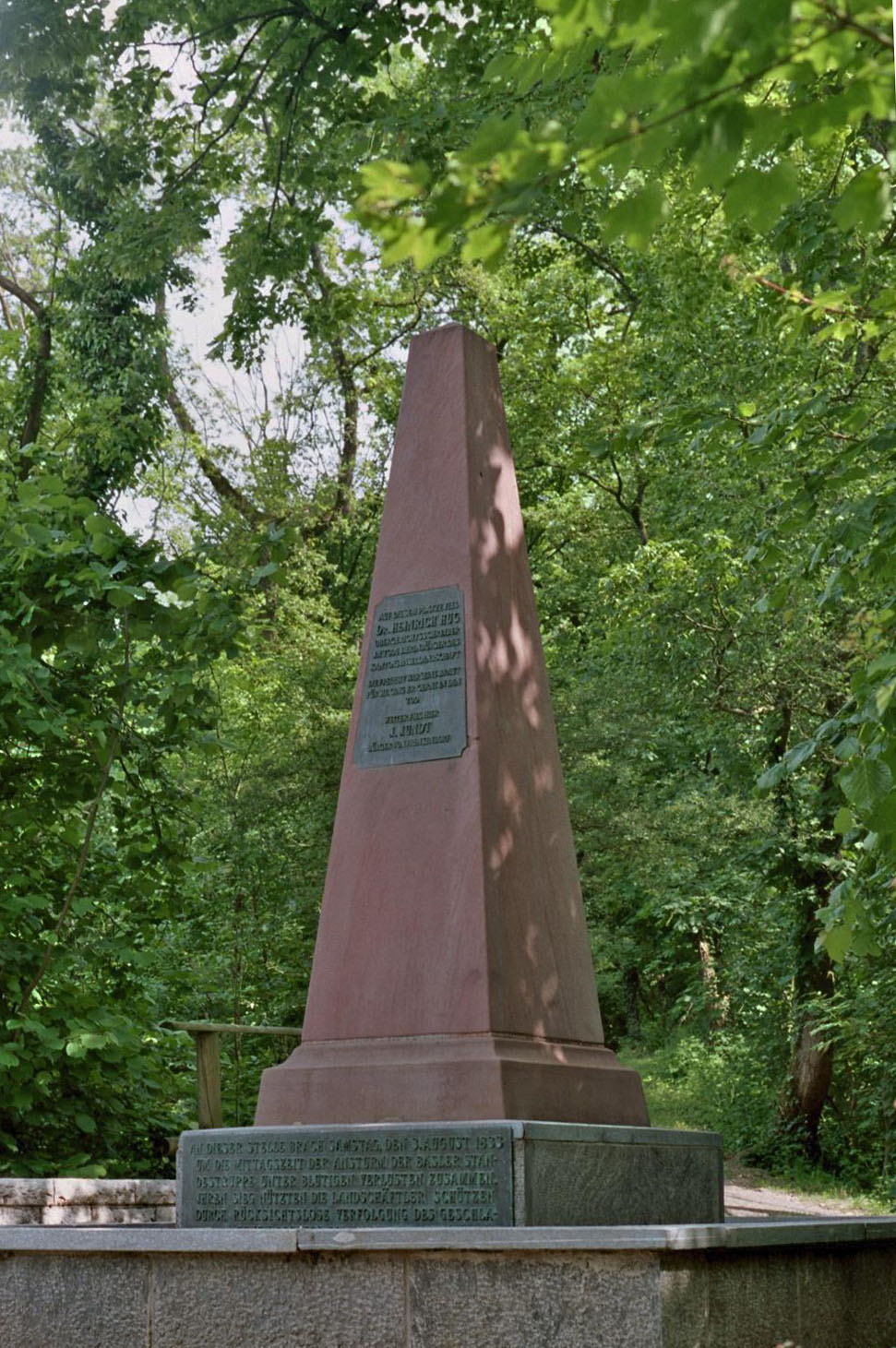 Hülftenschanz monument of 1836 in Frenkendorf, Switzerland